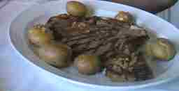 Bife grelhado ("grilled steak", in portuguese)